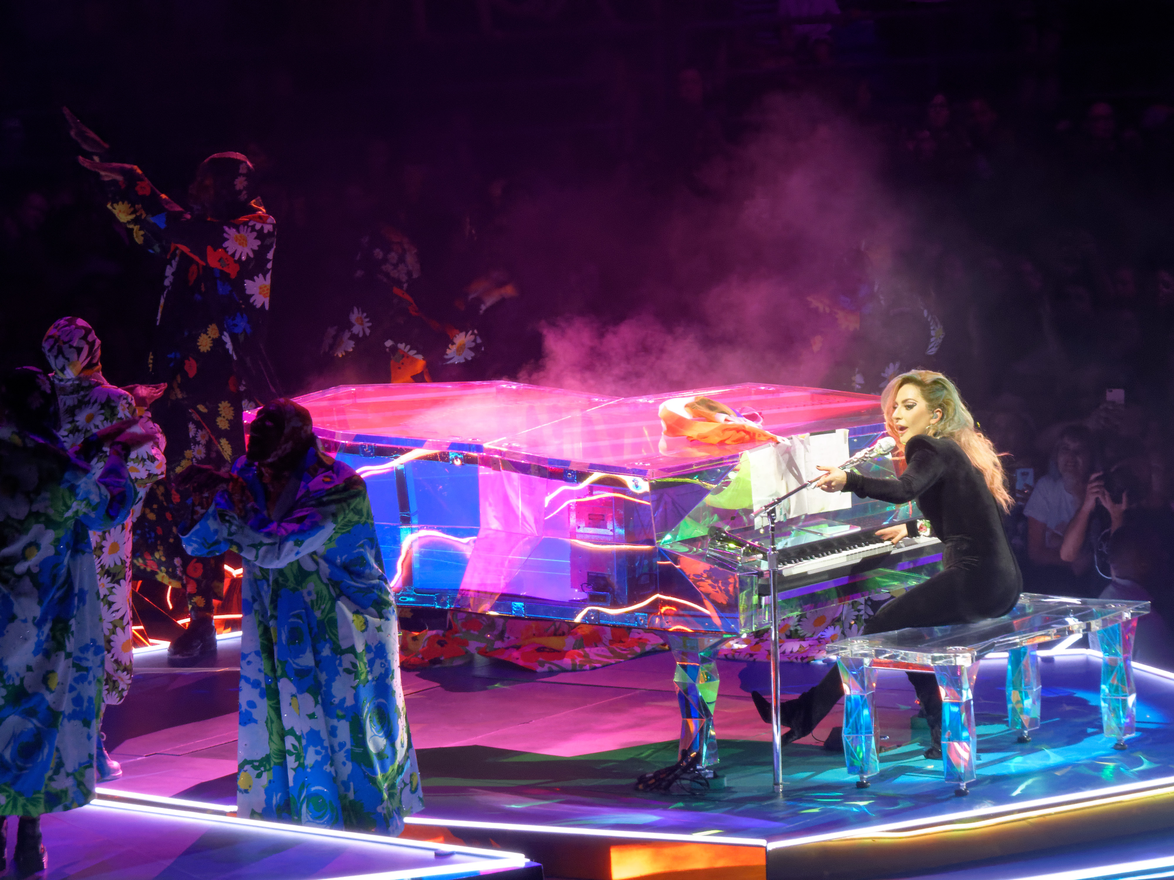 Lady Gaga performing "Come to Mama" at Joanne World Tour in Tacoma